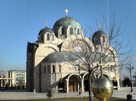 Holy Trinity orthodox church in the town of Radoviš, Republic of Macedonia.